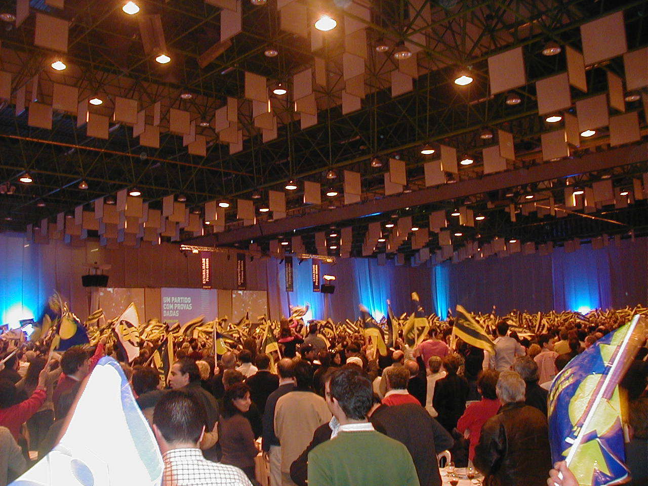 CDS-PP Meeting in the Europarque of Santa Maria da Feira, January 2005.